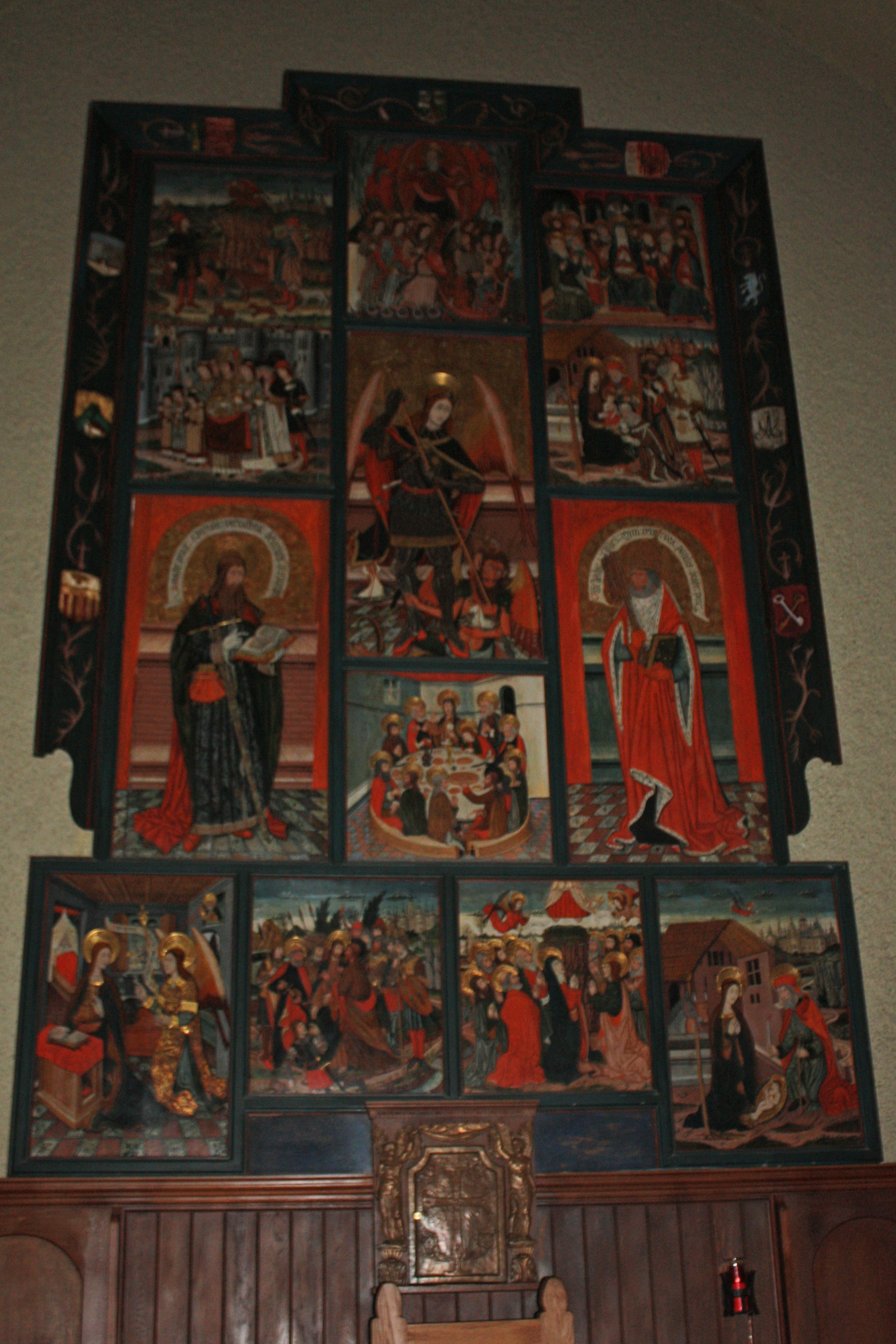 Gothic Altarpiece, Master Vielha, last third of the XV century.